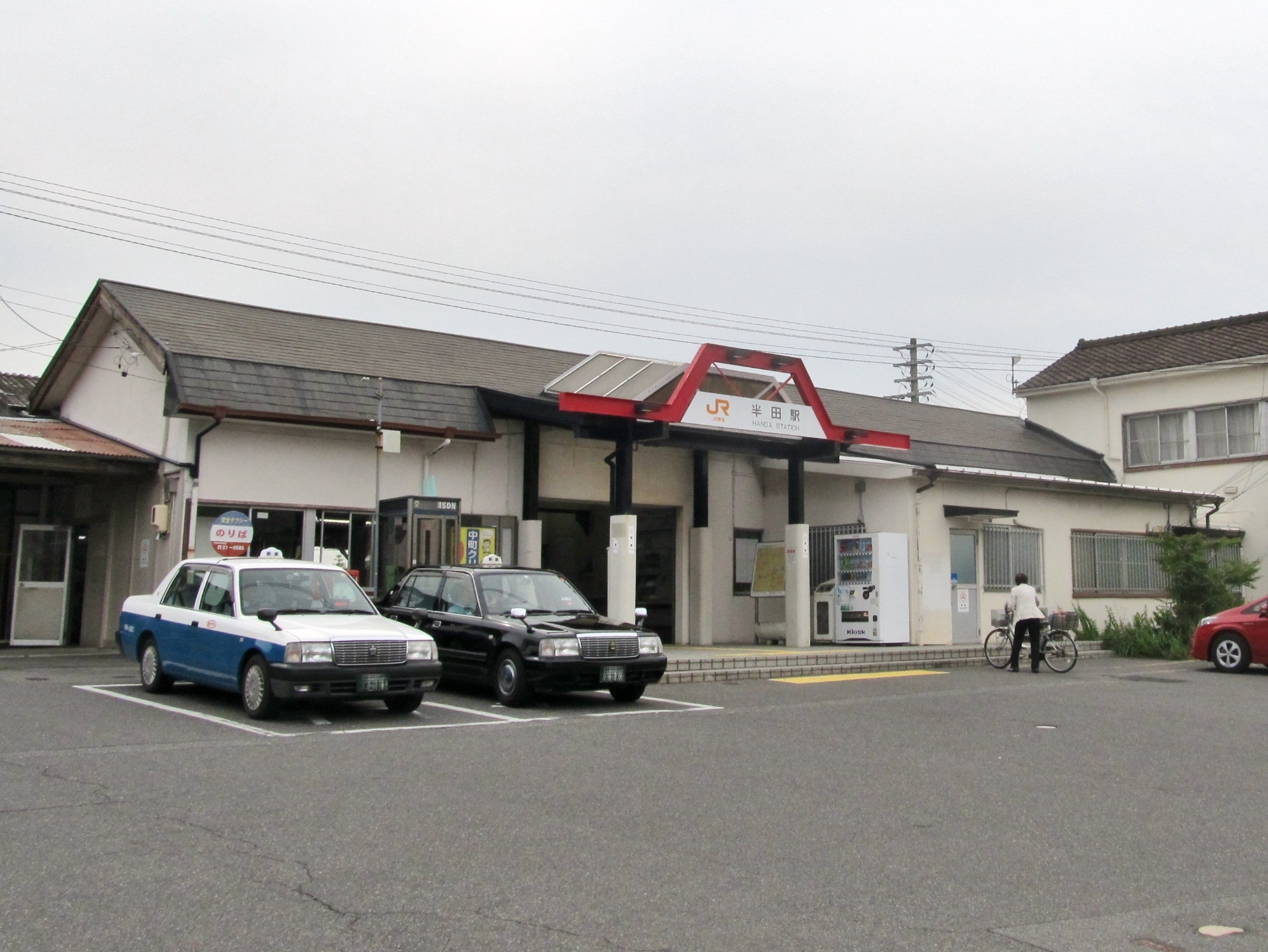 Central Japan Railway Taketoyo Line Handa Station Building